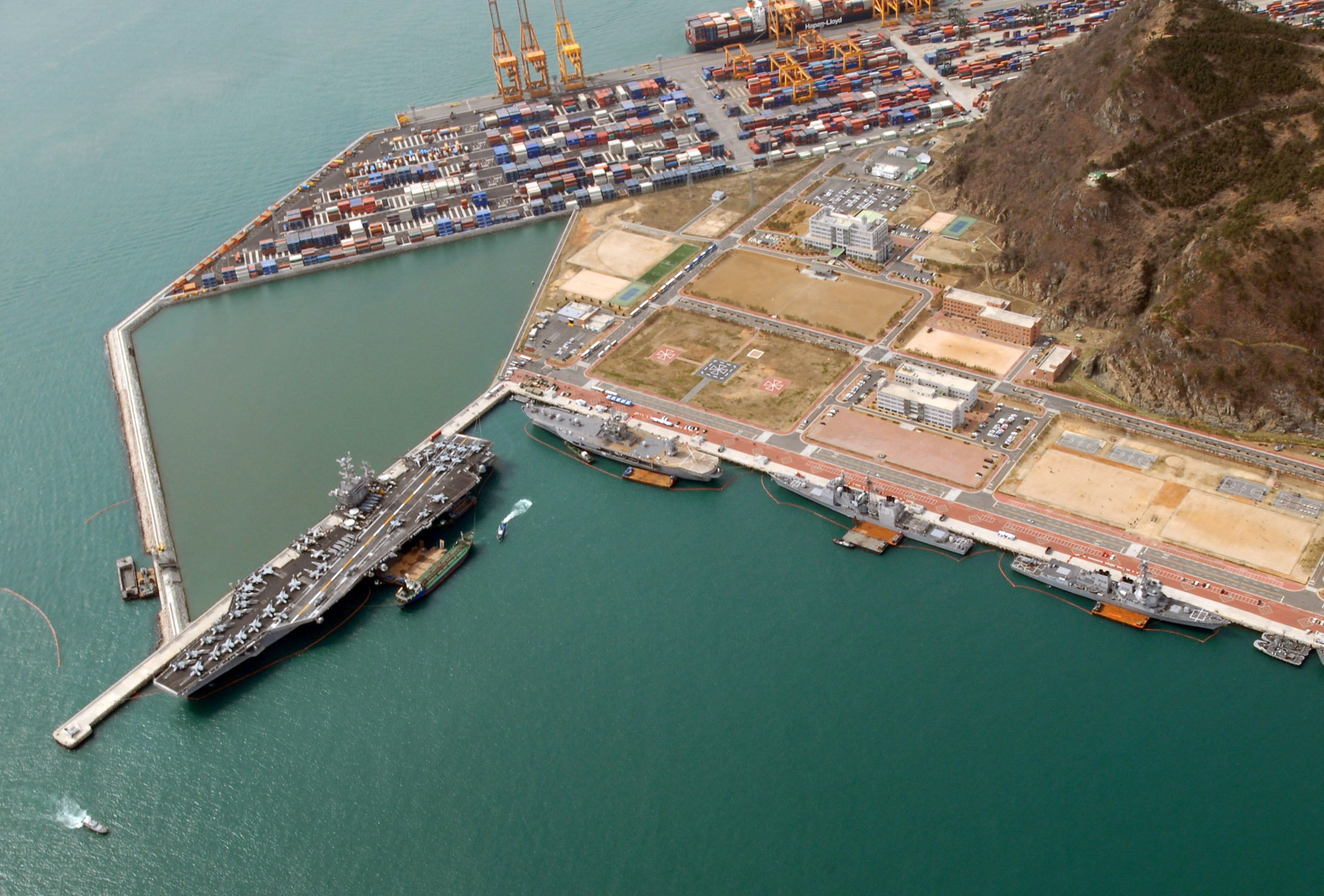 090312-N-1113S-197 BUSAN, Republic of Korea (March 12, 2009) Ships from the John C. Stennis Carrier Strike Group and U.S. 7th Fleet flagship USS Blue Ridge (LCC 19) are moored pier side at the Republic of Korea Navy Base Oryuk-Do in Busan. The strike group arrived March 11, while Blue Ridge pulled in March 5. Pictured from left are the aircraft carrier USS John C. Stennis (CVN 74), the amphibious command ship USS Blue Ridge, the guided-missile cruiser USS Antietam (CG 54) and the guided-missile destroyer USS Preble (DDG 88). (U.S. Navy photo by Mass Communication Specialist 2nd Class Matthew Schwarz/Released)